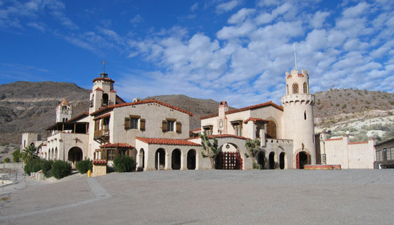 Death Valley Scotty's Castle — in northern Death Valley National Park, California, USA.